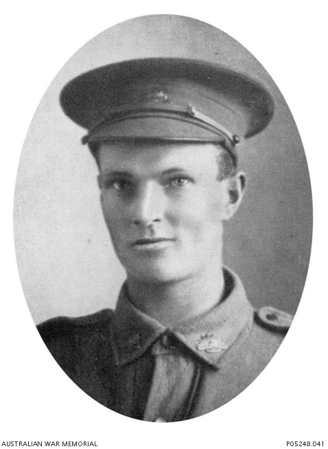 World War 1, Private Henry Archibald ("Archie") Donaldson in 1916. Killed in action in 1917.